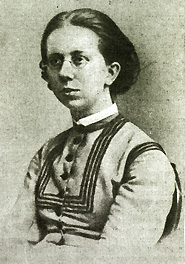 Юлия Всеволодовна Лермонтова (1846-1919), Julia Vsevolodna Lermontova (1846-1919), Russian chemist, Foto before 1919